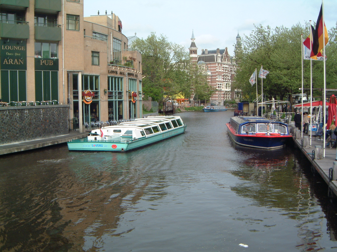 Canals of Amsterdam